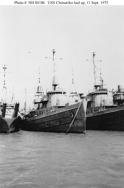 Picture of the USS Chimariko (ATF-154) three years before it was sunk as a target off of the coast of California.